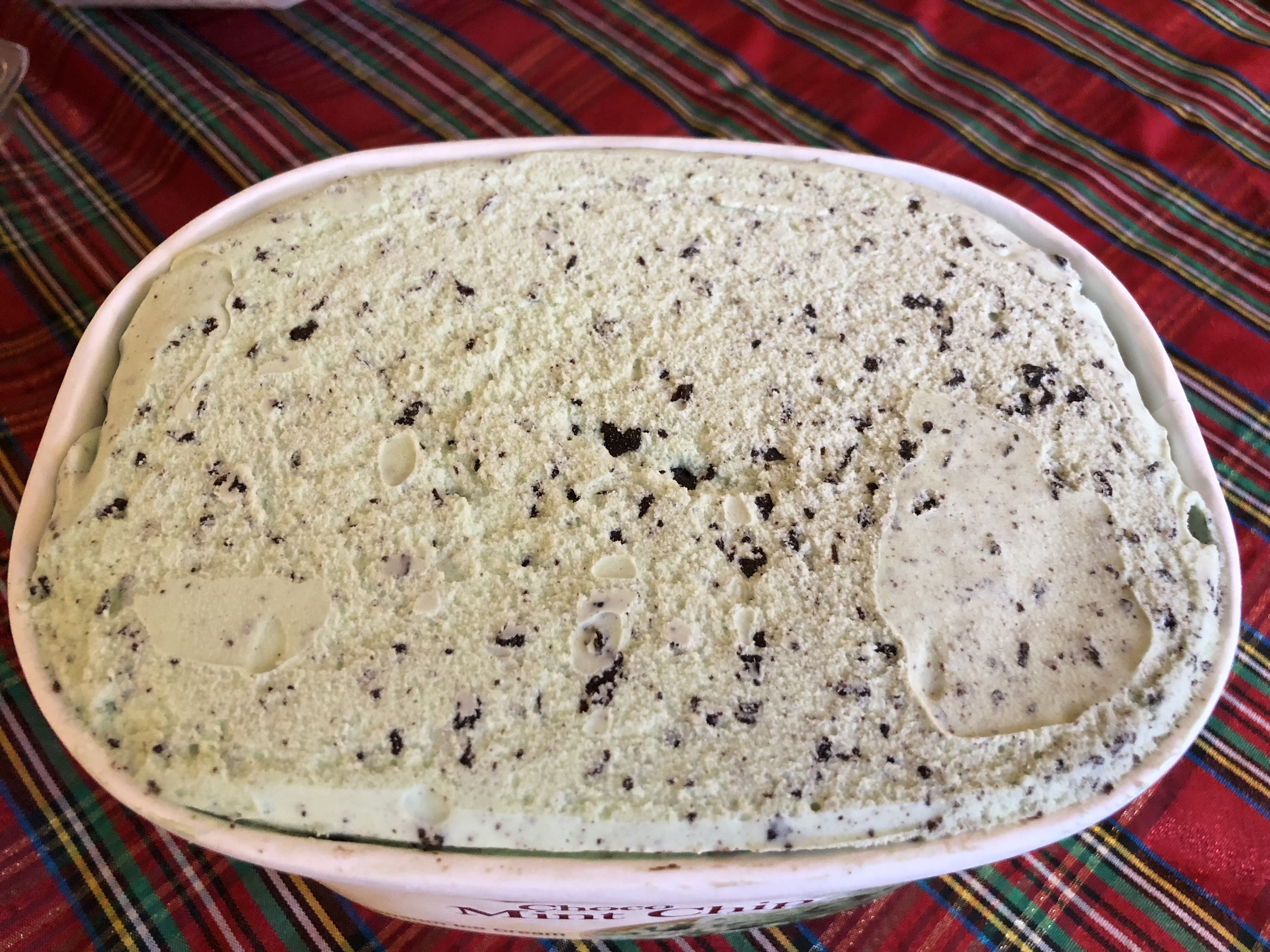 A tub of Turkey Hill Choco Mint Chip Premium Ice Cream in the Parkway Village section of Ewing Township, Mercer County, New Jersey